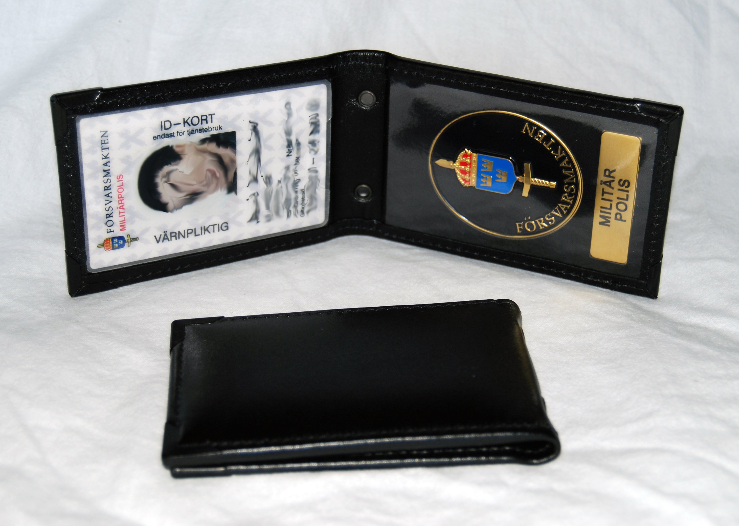 Wallet with badge for the Swedish armed forces.